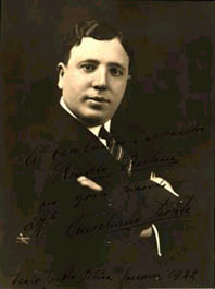 Italian opera singer Aureliano Pertile (1885―1952)